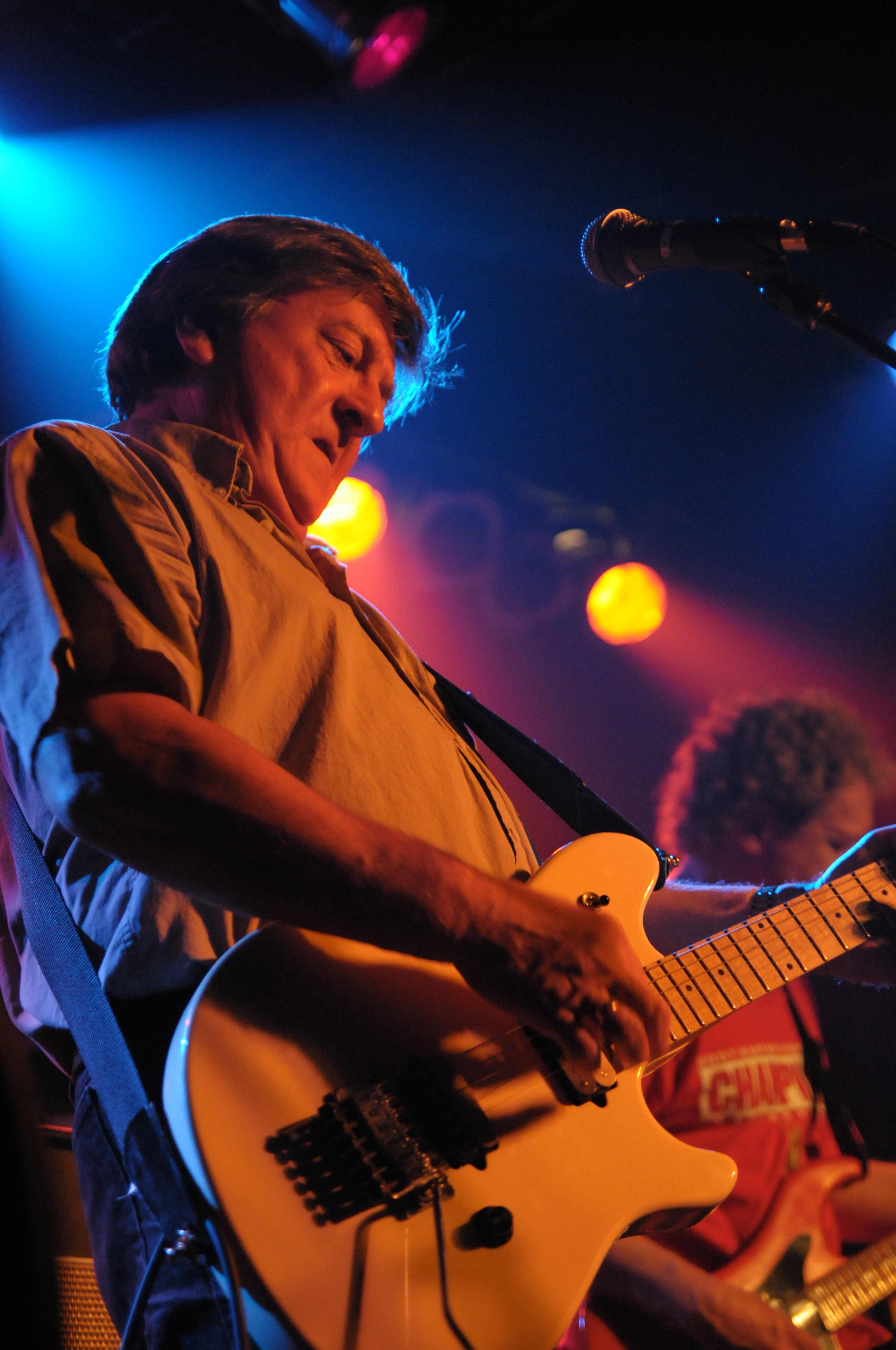 Les Emmerson at Greenfields pub in Ottawa